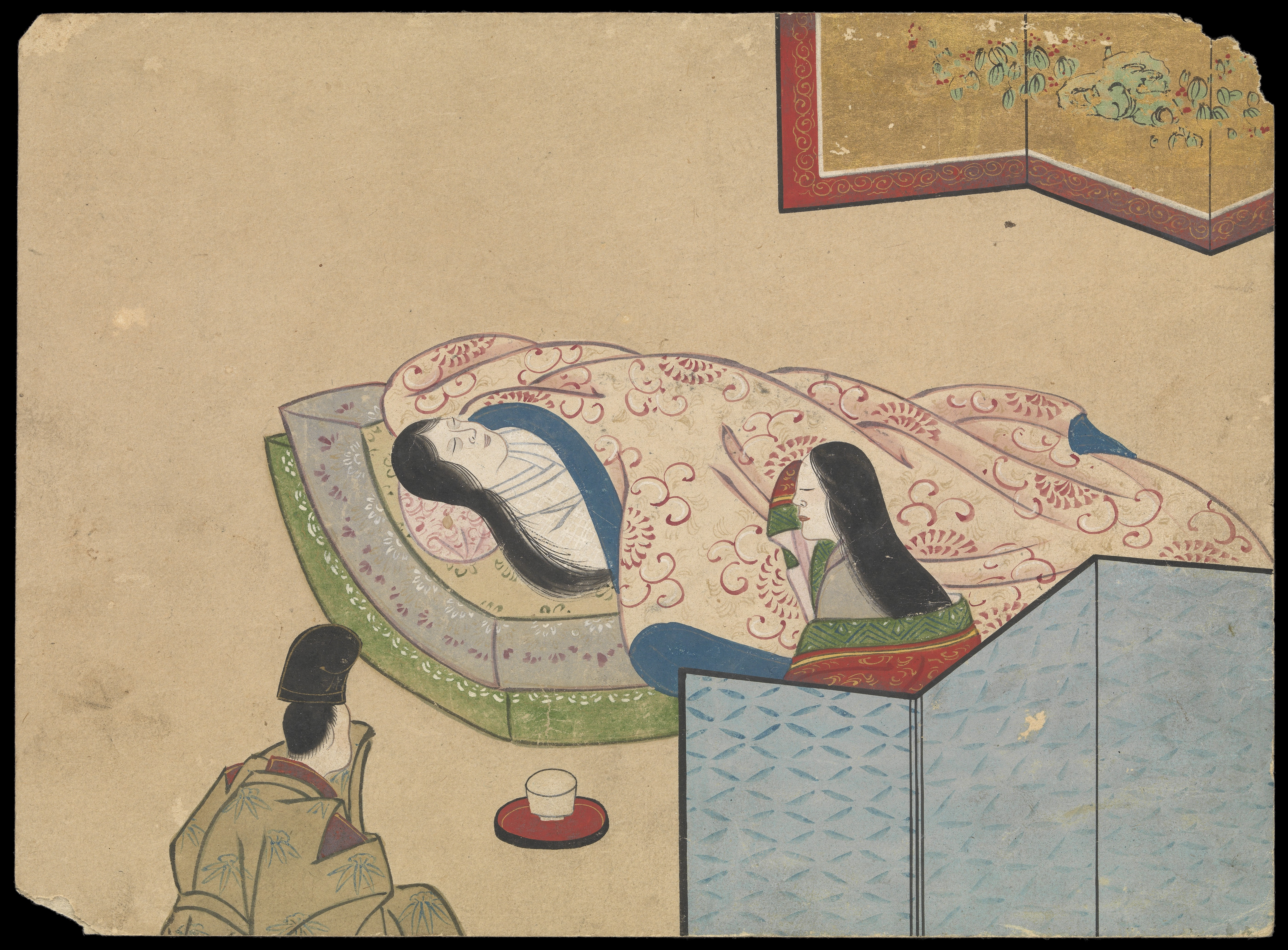 Kusozu: the death of a noble lady and the decay of her body. Second in a series of 9 watercolour paintings. Here, she has died, and is laid out on the floor covered to her shoulders with a blanket, with a lady and a gentleman in attendance. Iconographic Collections